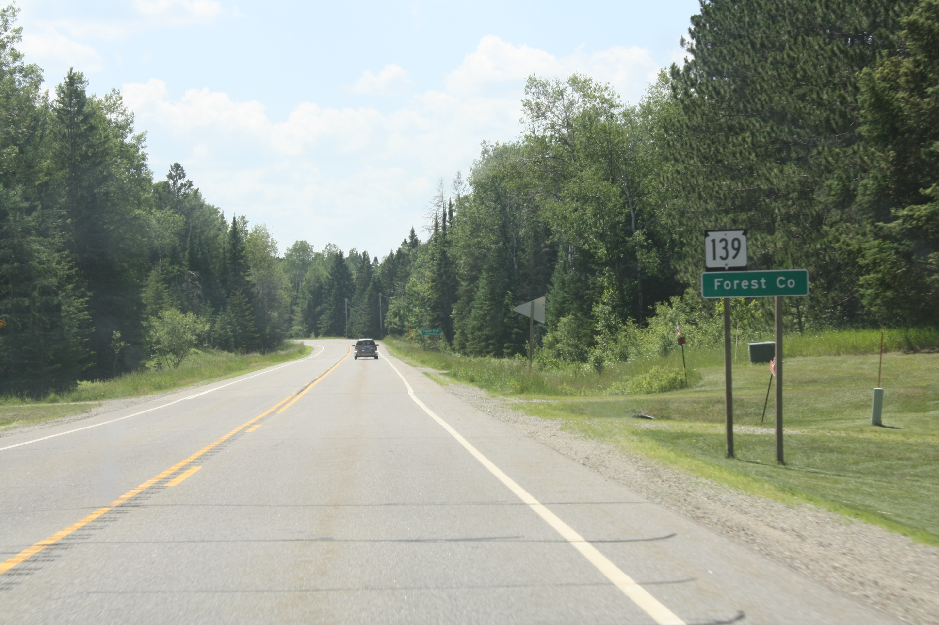 The county entrance sign for Forest County, Wisconsin on Wisconsin Highway 139.